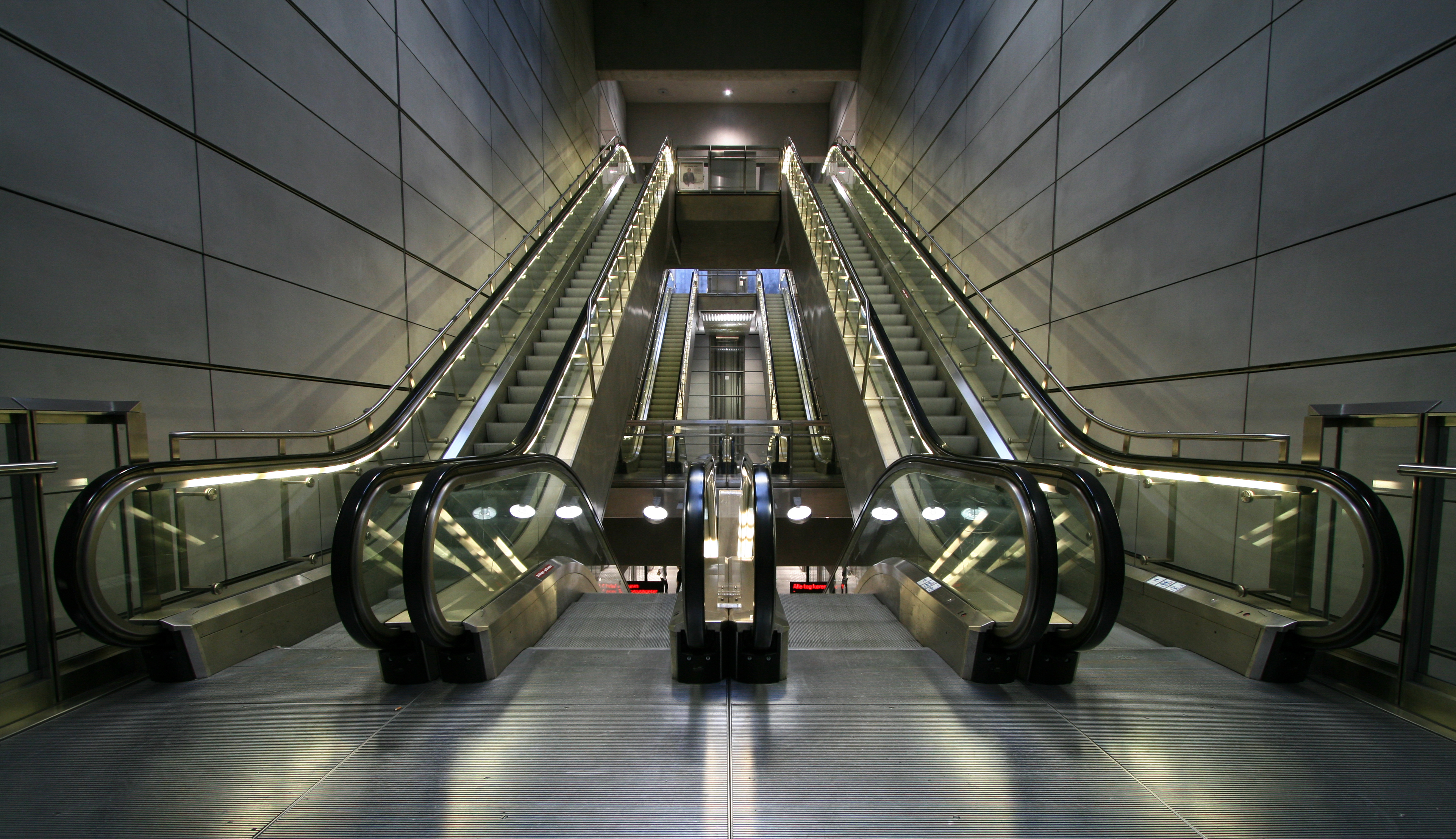 I spent a whole lot of money this week buying a Canon EOS 400D (Digital Rebel XTi) dSLR camera and two good lenses for it. One of the lenses is a Canon EF-S 10-22mm wideangle zoom (equivalent to 16-35mm on a 35mm camera). That's a fun lens...